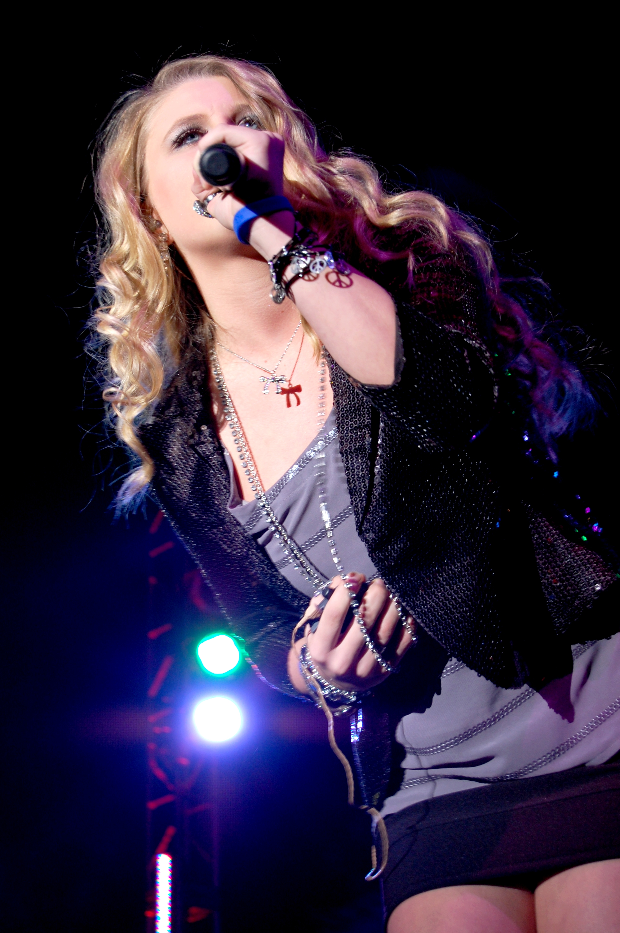 Anthem Tree Lighting Ceremony November 21, 2009 Outlets at Anthem